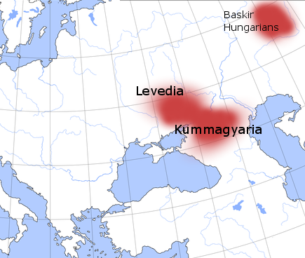 Kummagyaria, According to Laszlo Bendefy (Source(book): Bendefy: Kummagyaria, 1941) The map what i used for editing is a public domain